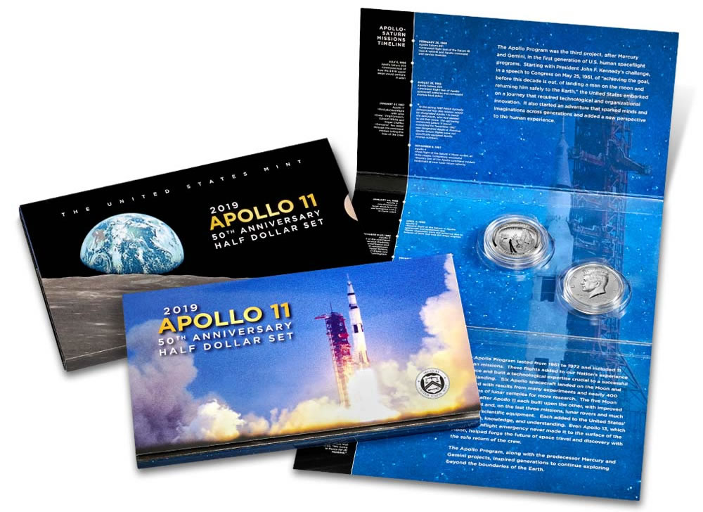 The two half dollar sets offered by the US Mint using Apollo 11 coins